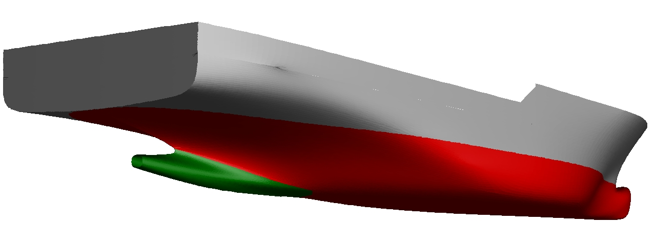 model of bare hull single screw vessel with higlighted centerskeg.